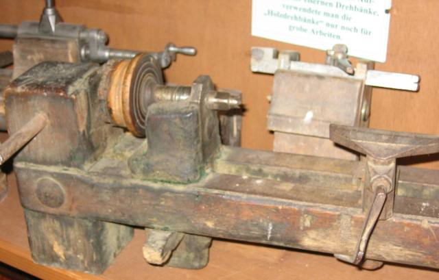 An image of a homemade wooden lathe used to make wooden wheel blanks displayed at the Uhrenmuseum Guethenach in Germany